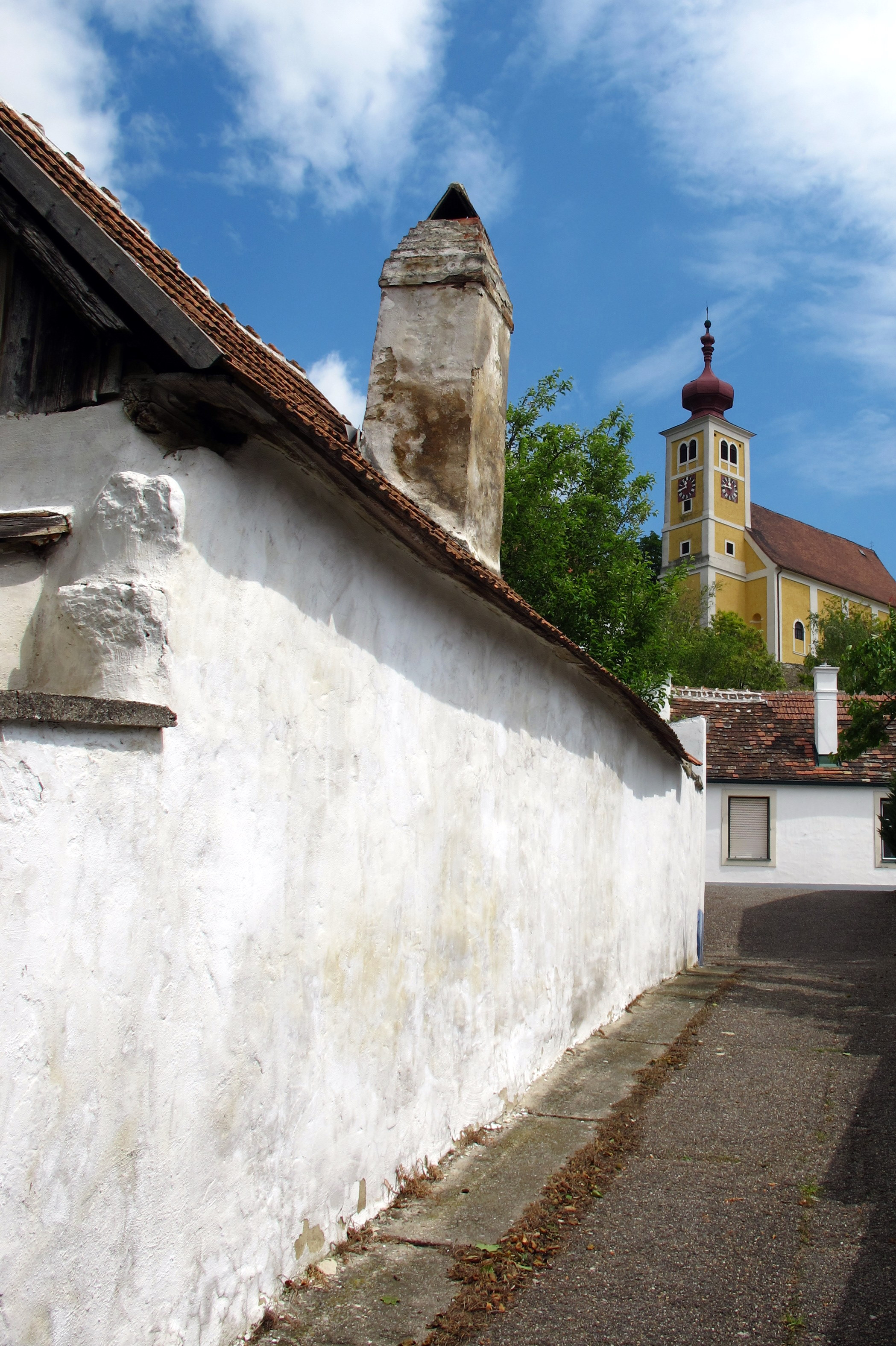 Mountain Church of Donnerskirchen / Burgenland / Austria / EU.